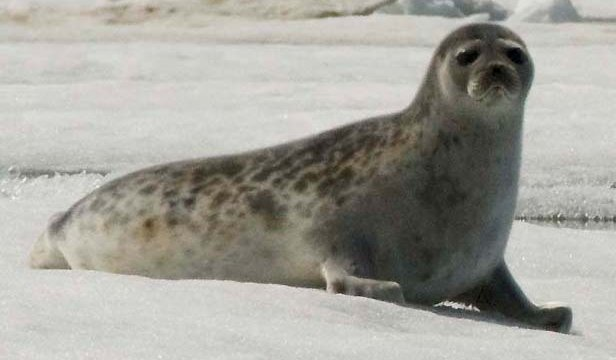 Crop of file in filename